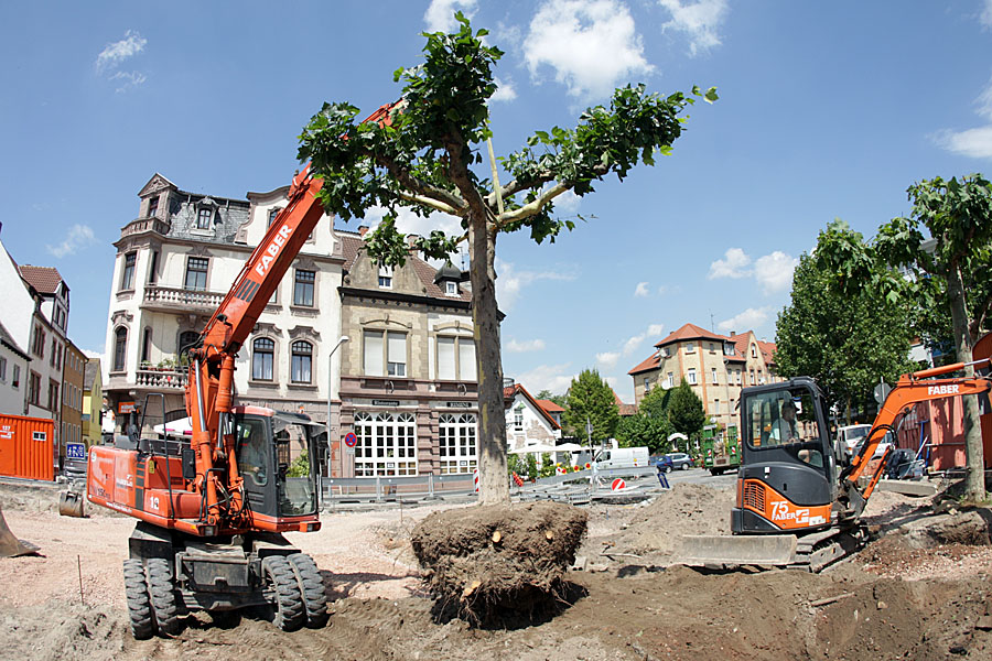 Transplanting a planetree